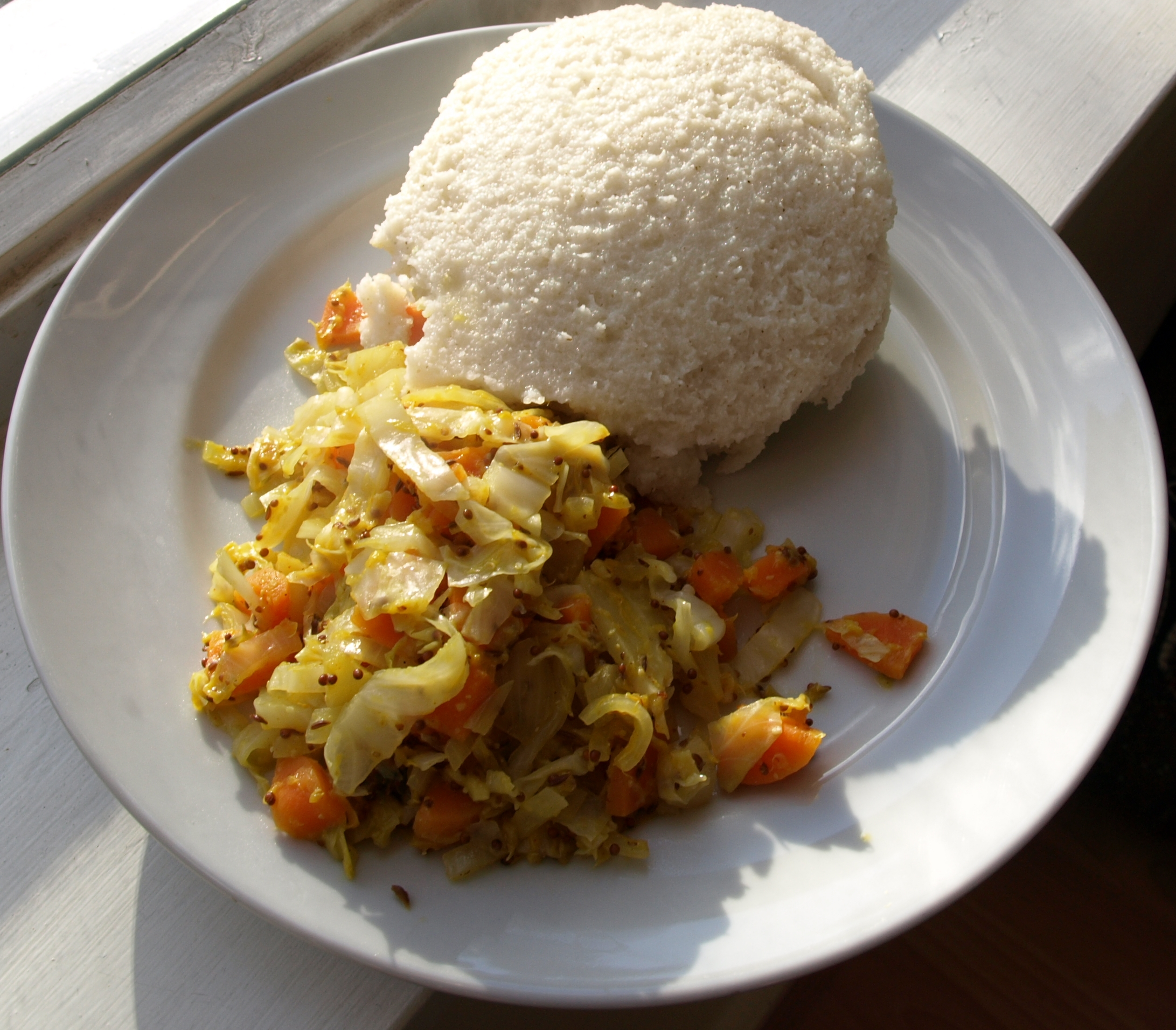 Uglai and cabbage. Ugali (also sometimes called sima or posho) is a cornmeal product and a staple starch component of many African meals, especially in Southern and East Africa. It is generally made from maize flour (or ground maize) and water, and varies in consistency from porridge to a dough-like substance.